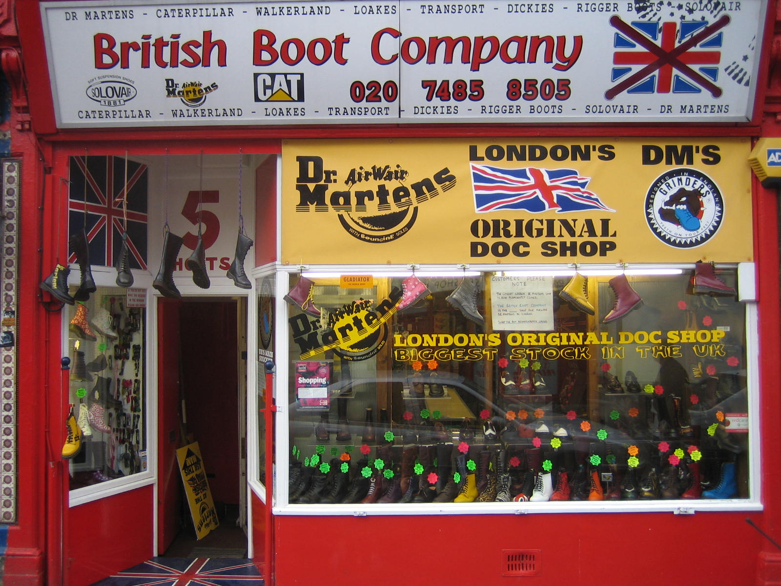 British Boot Company at 5 Kentish Town Road, Camden Town, London NW1 8NH.